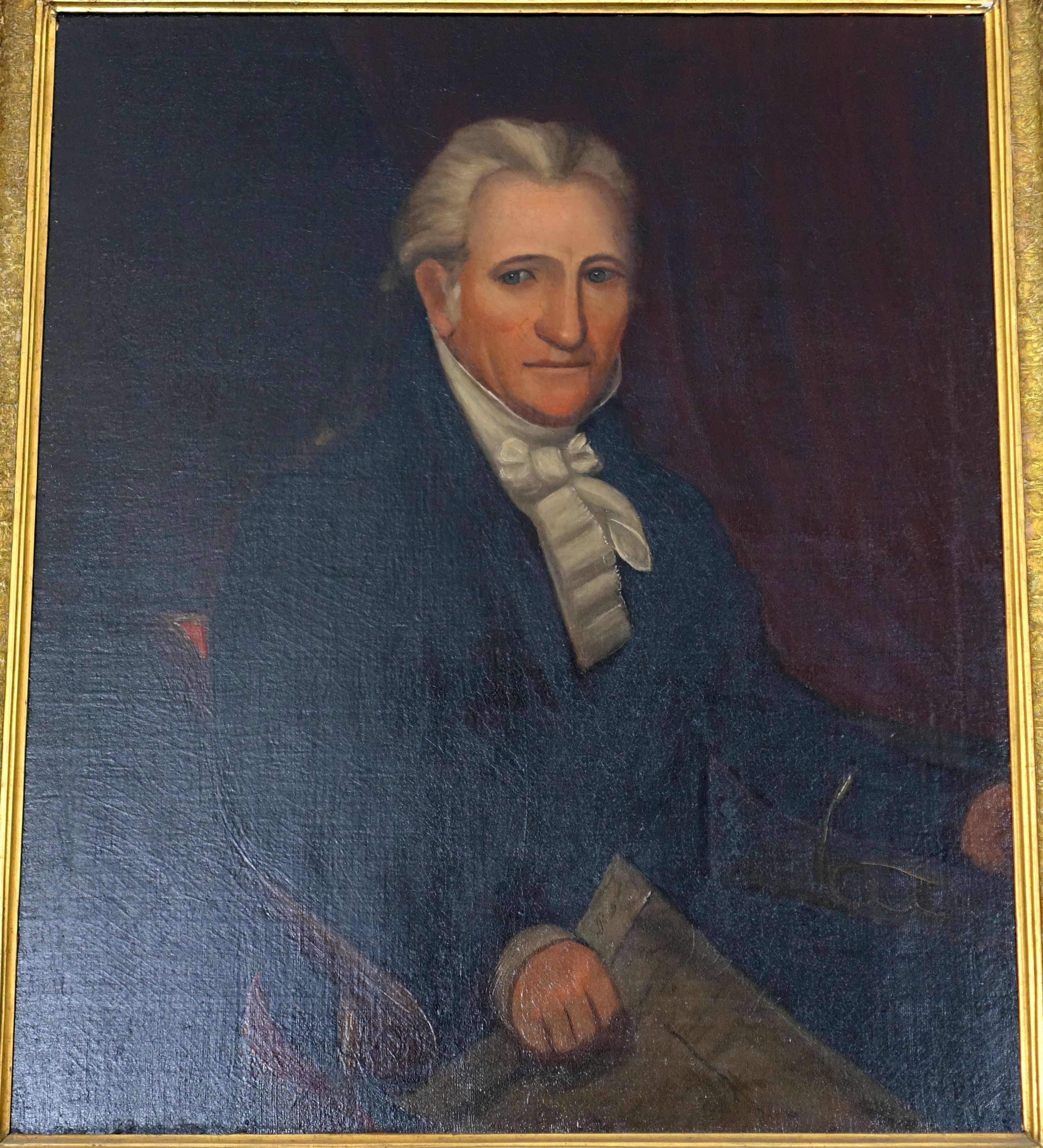 Exhibit in the Bennington Museum - Bennington, Vermont, USA. This work is in the public domain because the artist died more than 70 years ago.